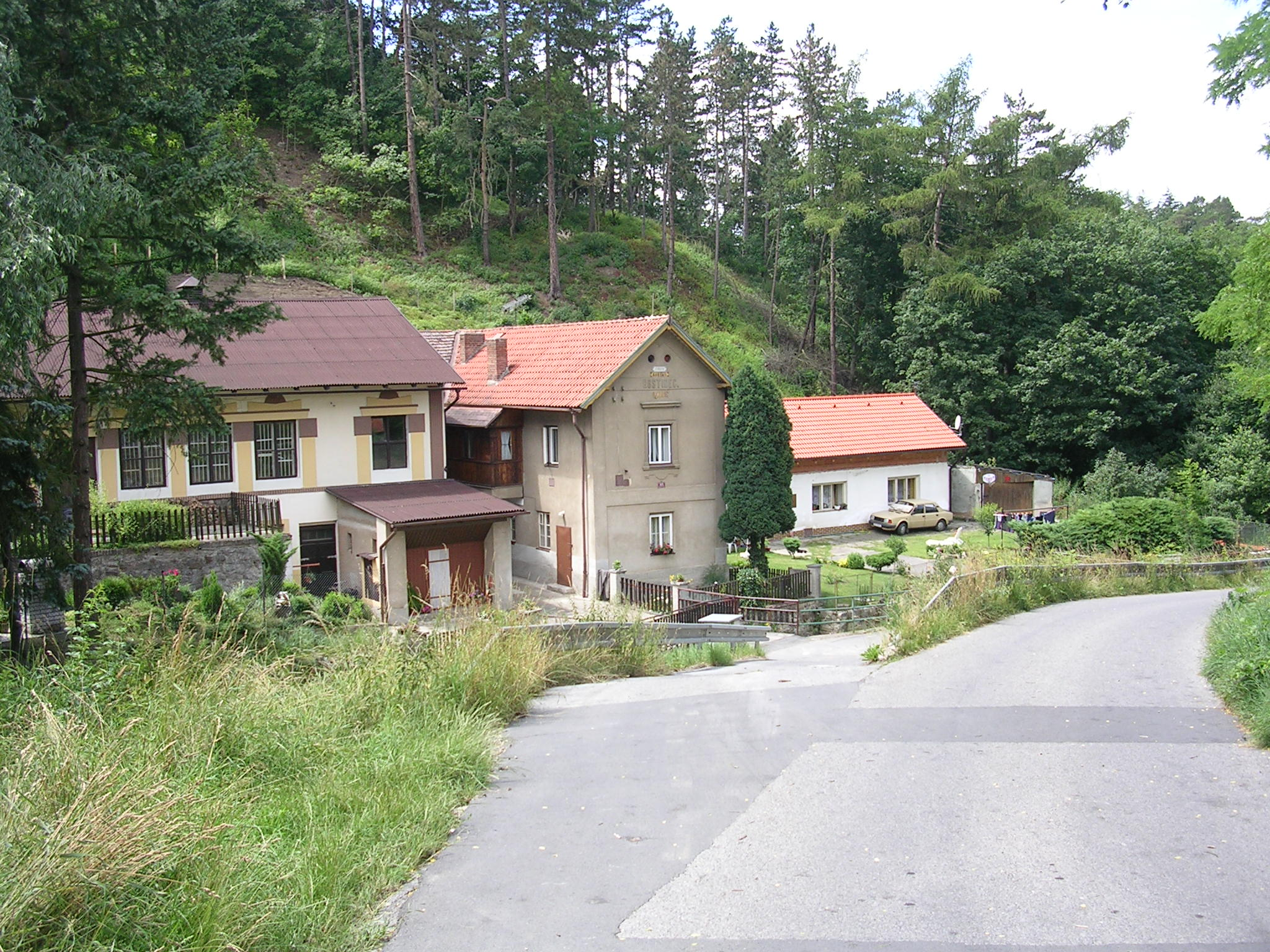 Hlubočepy, Prague, the Czech Republic. Klukovice.